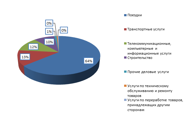 The structure of exports of services to Armenia in 2016, %